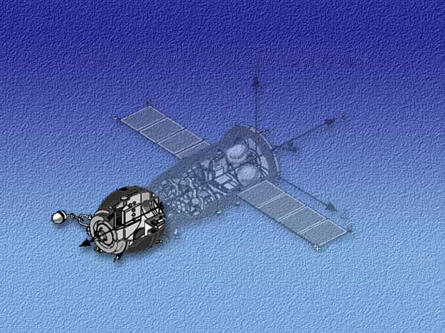 This graphic highlights the Soyuz spacecraft's Orbital Module.